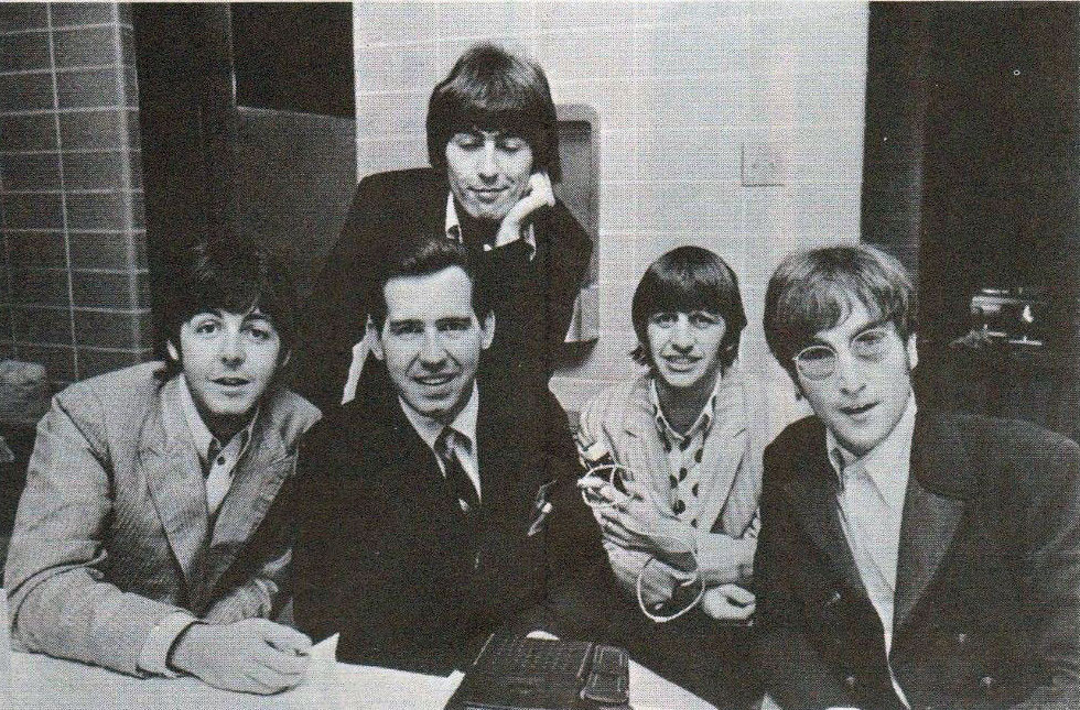 WCFL Sound 10 Survey, October 1966, featuring Jim Stagg with the Beatles.